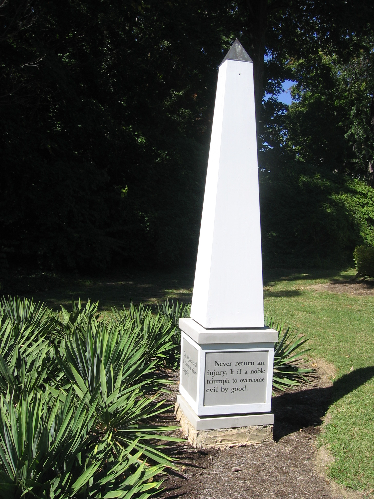 A 2000 reproduction of an obelisk erected by Charles Willson Peale on his Belfield Estate